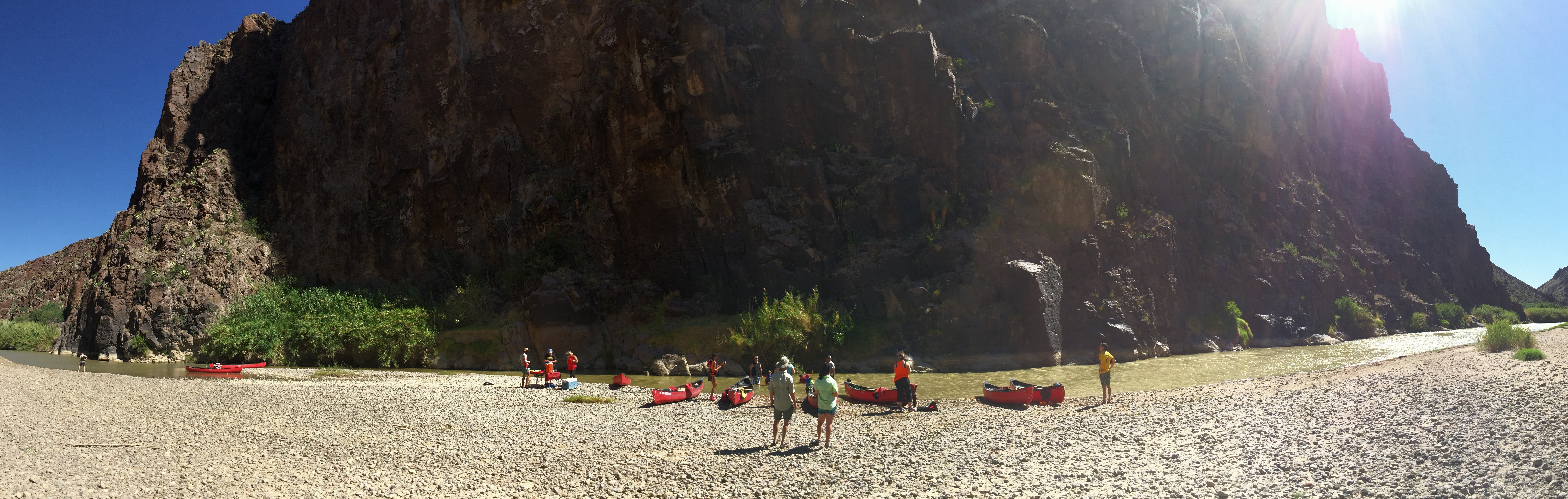 Dark Canyon on the Rio Grande River within the bounds of Big Bend Ranch State Park (Texas)